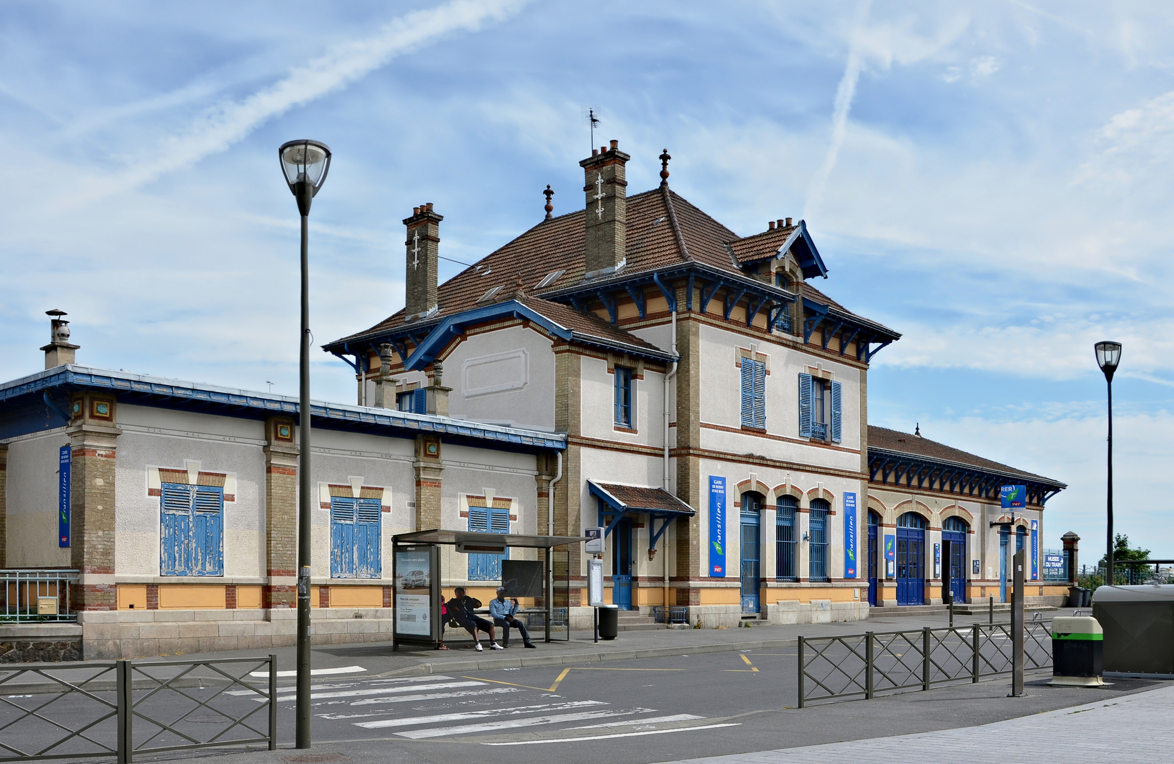 Exterior view of the station, Rosny-sous-Bois, Seine-Saint-Denis, France.